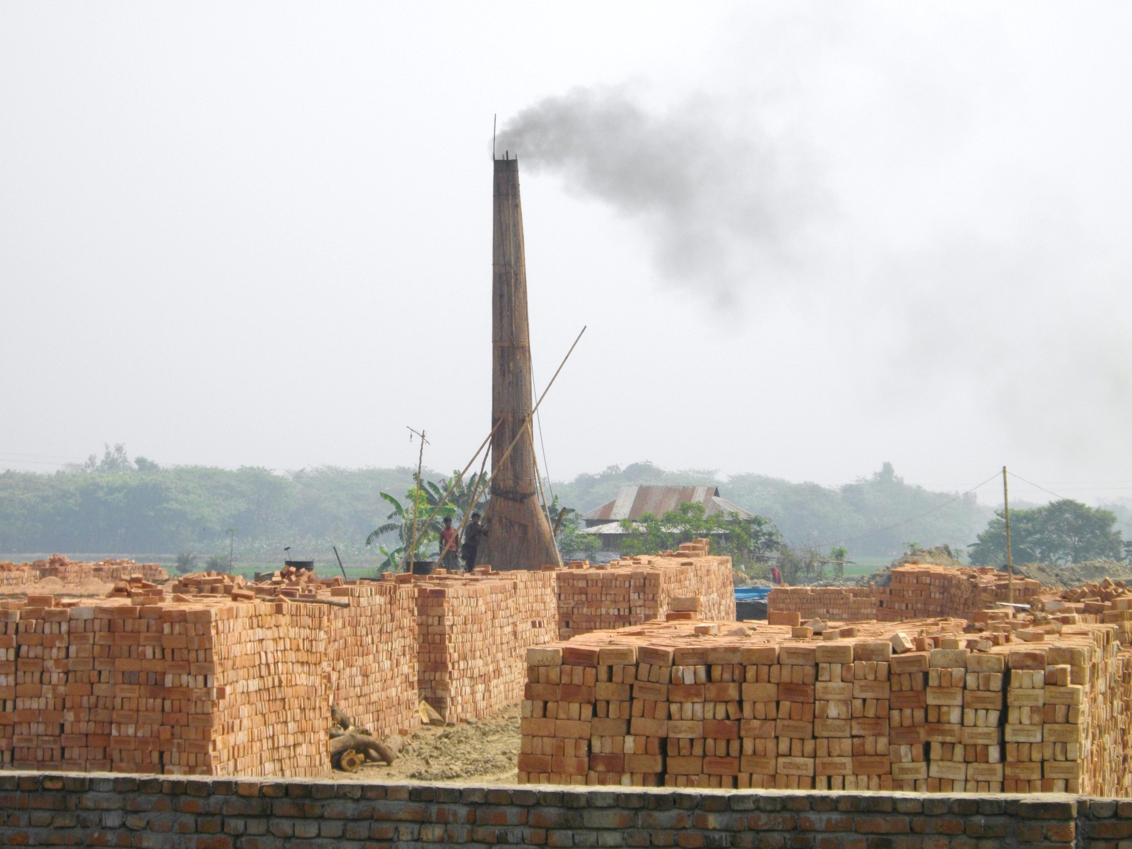 A traditional Brick field of Bangladesh. Brick burnt with wood.